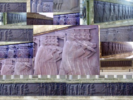 A collage of Herbert Tyson Smith's reliefs on the Liverpool Cenotaph